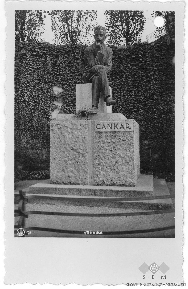 Postcard of Vrhnika, Ivan Cankar statue